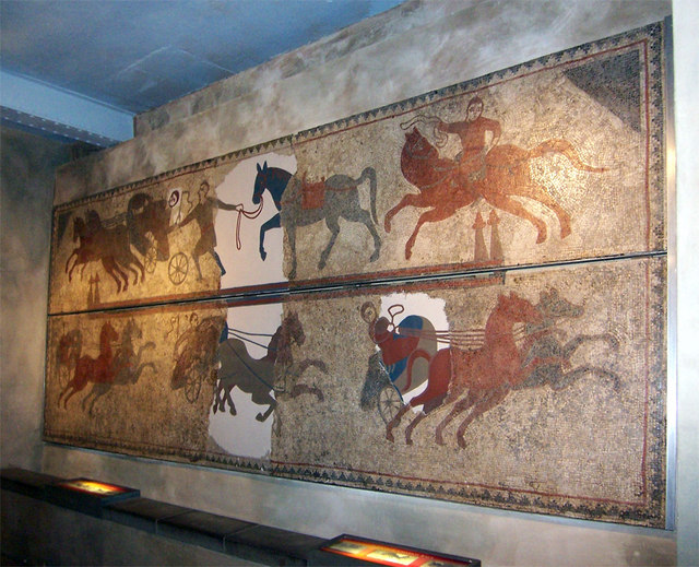 Horkstow Roman Mosaic. The mosaic was discovered at Horkstow Hall 282374, North Lincolnshire, in 1795. This panel depicts a chariot race.